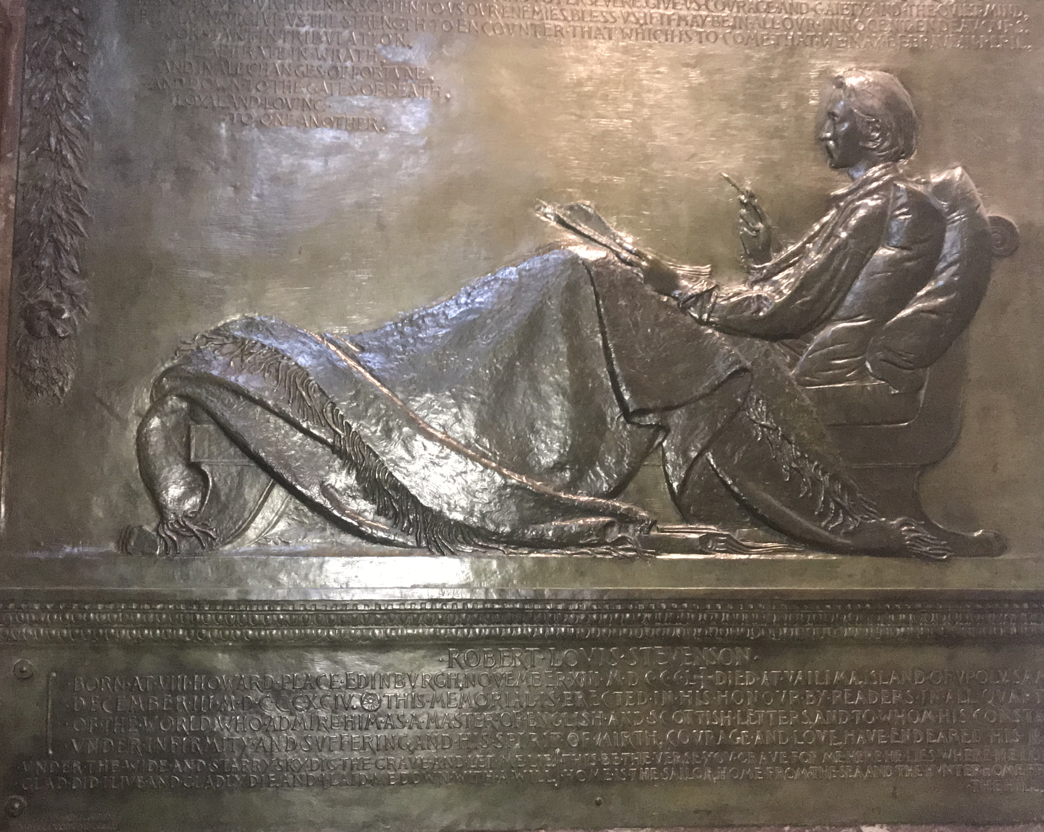 Robert Louis Stevenson sculpture in St. Giles' cathedral